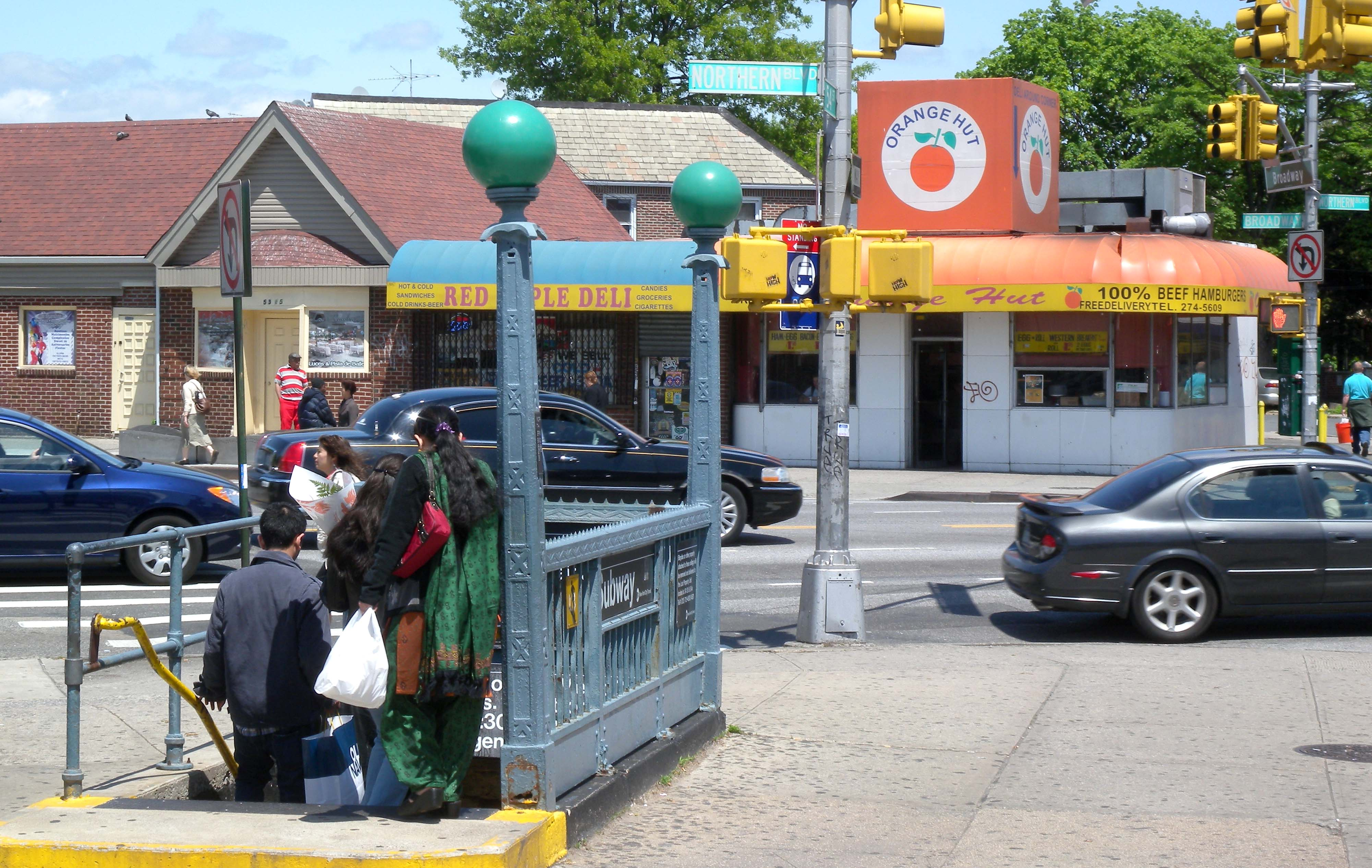 Looking north, zoomed, at Northern Boulevard (IND Queens Boulevard Line) stair on a sunny midday.